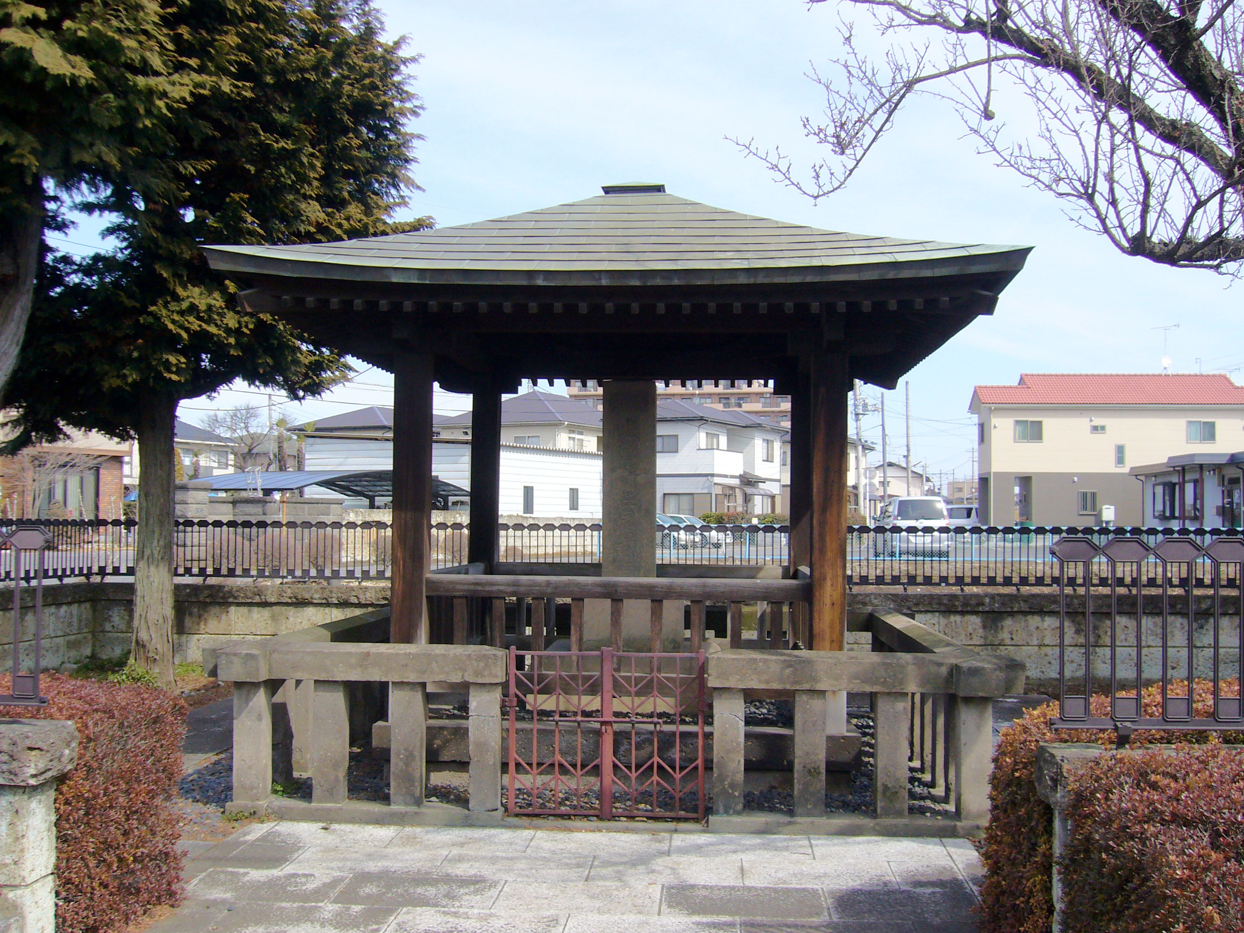 Gamou Kunpei Chokuseihi (Monument for the Japanese confucianist Gamou Kunpei in Utsunomiya, Japan)